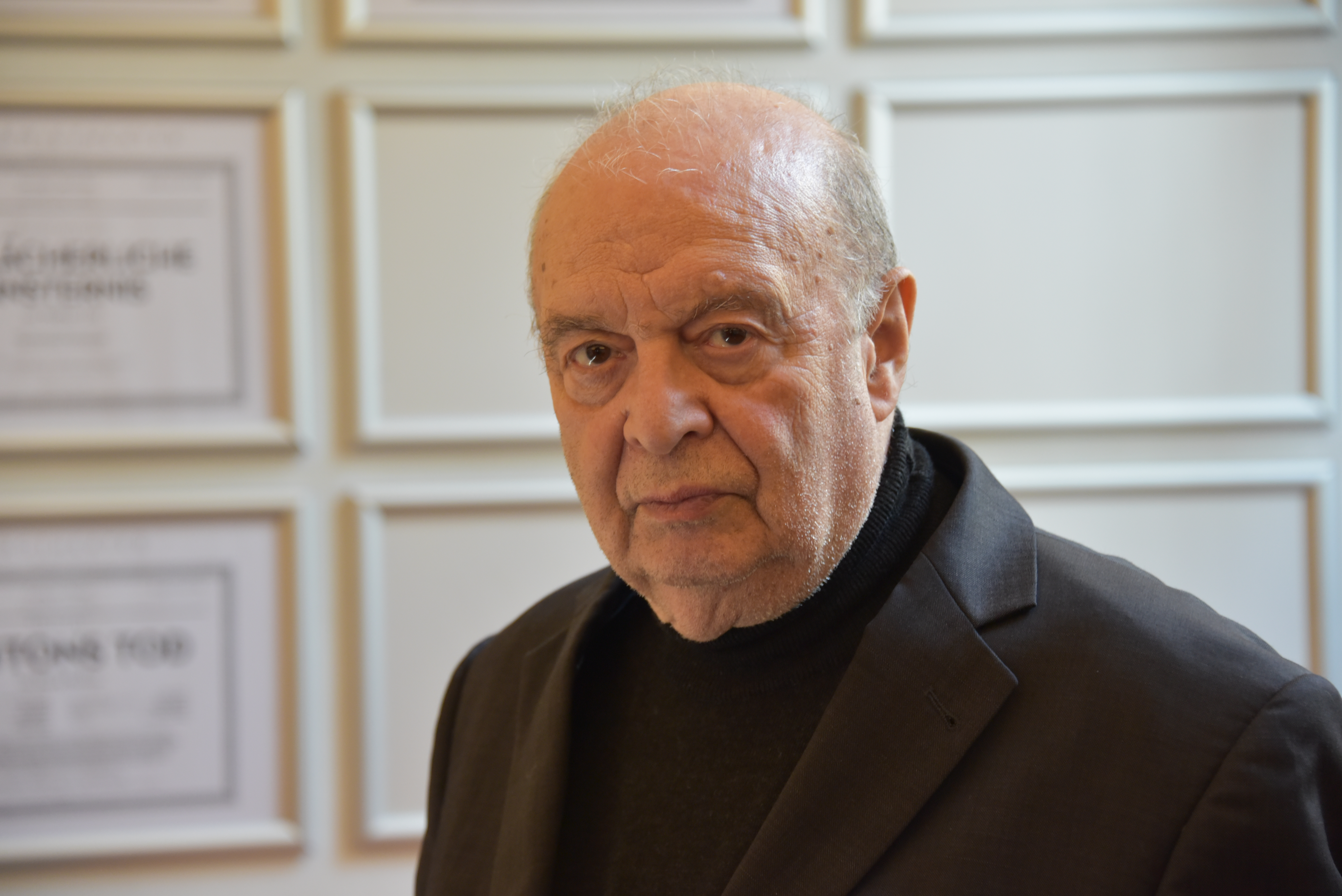 Rudolf Gelbard at the Burgtheater, Vienna 2014